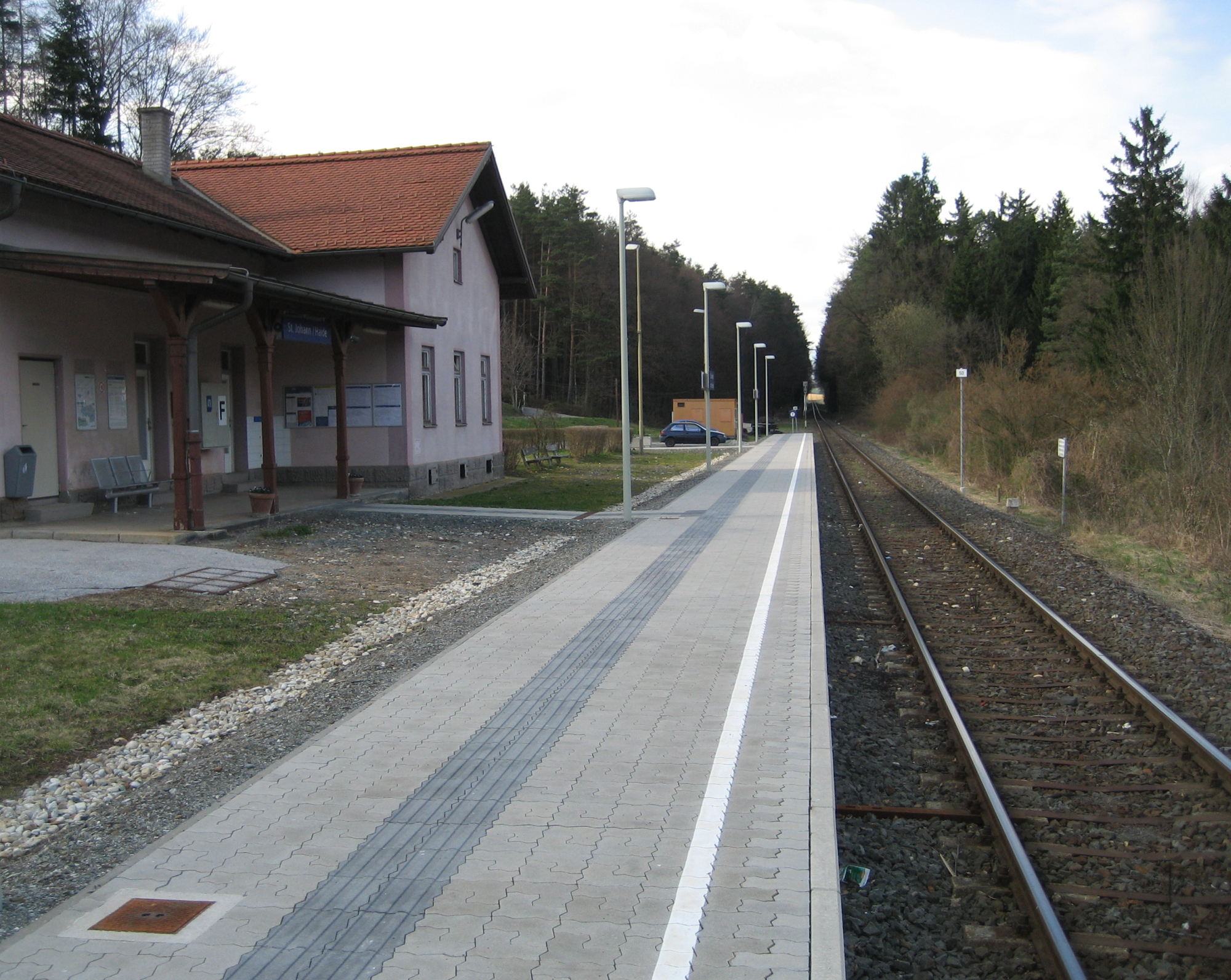 train station St. Johann in der Haide in Styria